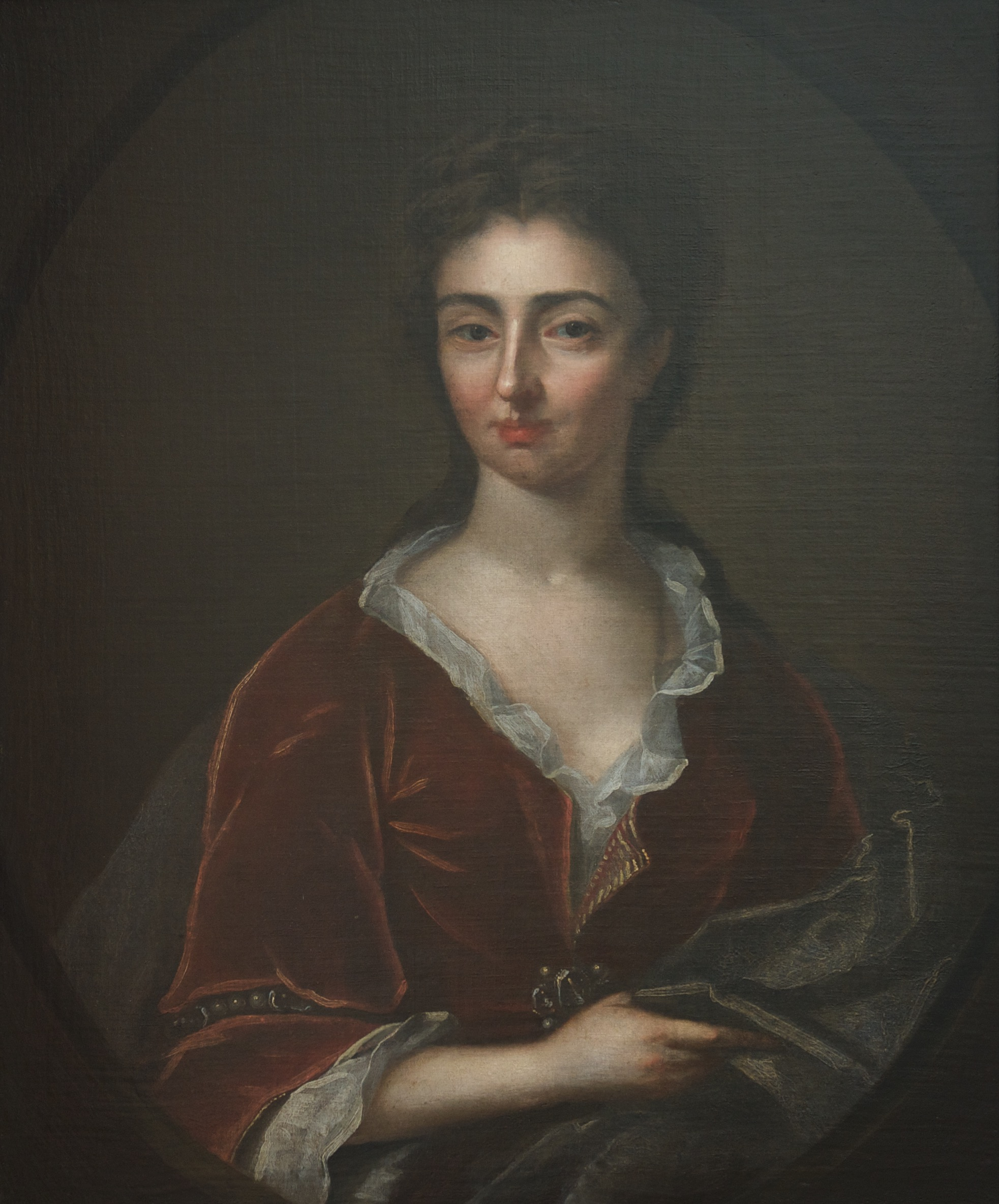 Dimensions: 30 x 25 in. 30 x 25 in. (76.2 x 63.5 cm.)